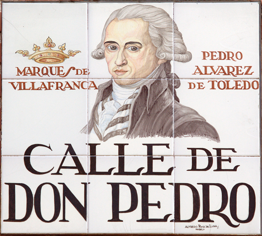 Sign of Calle de Don Pedro (street, Centro district) in Madrid (Spain).